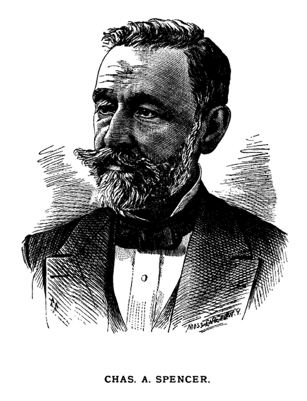 Woodcut portrait of Charles A. Spencer, excerpted from Proceedings of the American Society of Microscopists Vol. 4, Fifth Annual Meeting (1882), pp. 49-74, entitled "Memoir of Charles A. Spencer," courtesy of JSTOR.